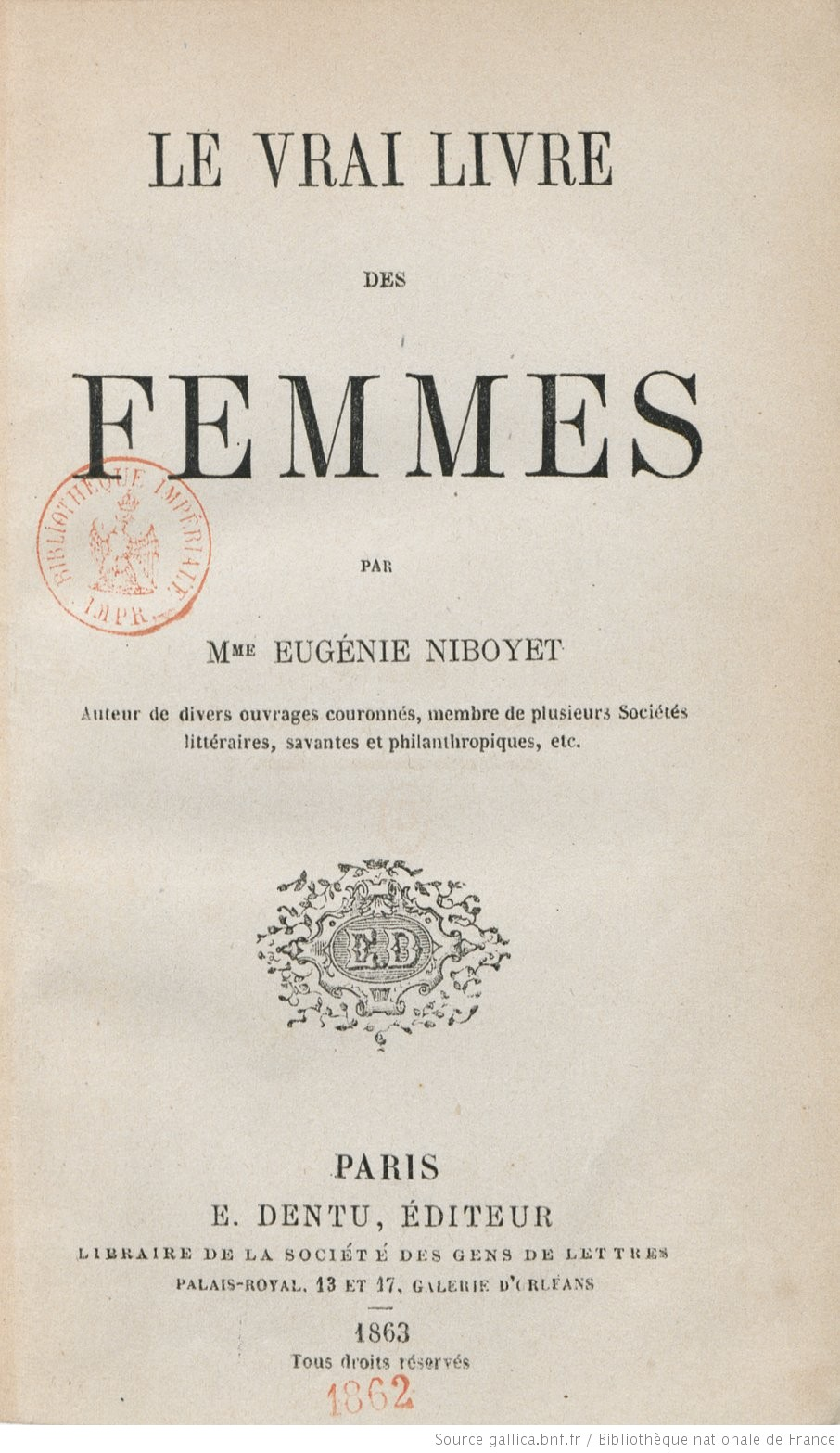 Cover of the book "le vrai livre des femmes"